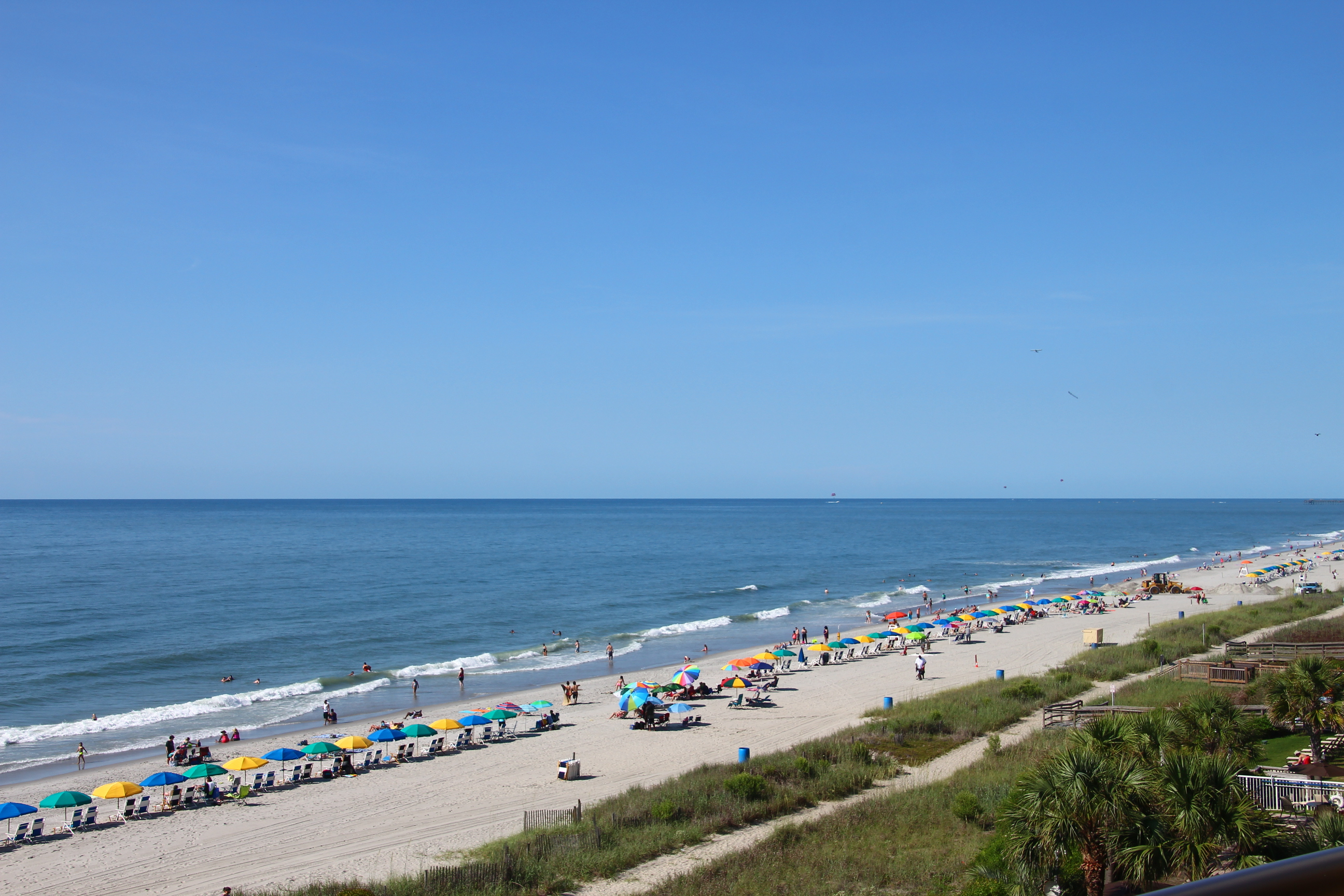 North Myrtle Beach, South Carolina.